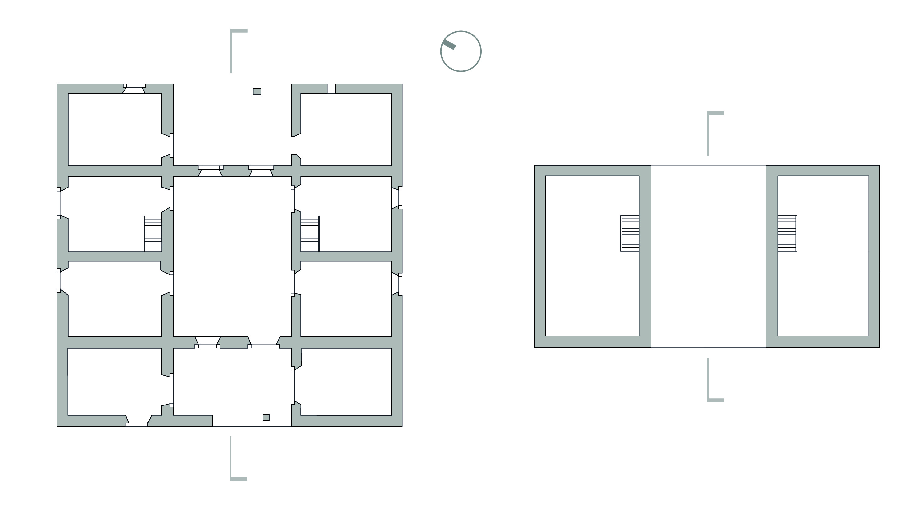 Sítio do Mandu groundfloor